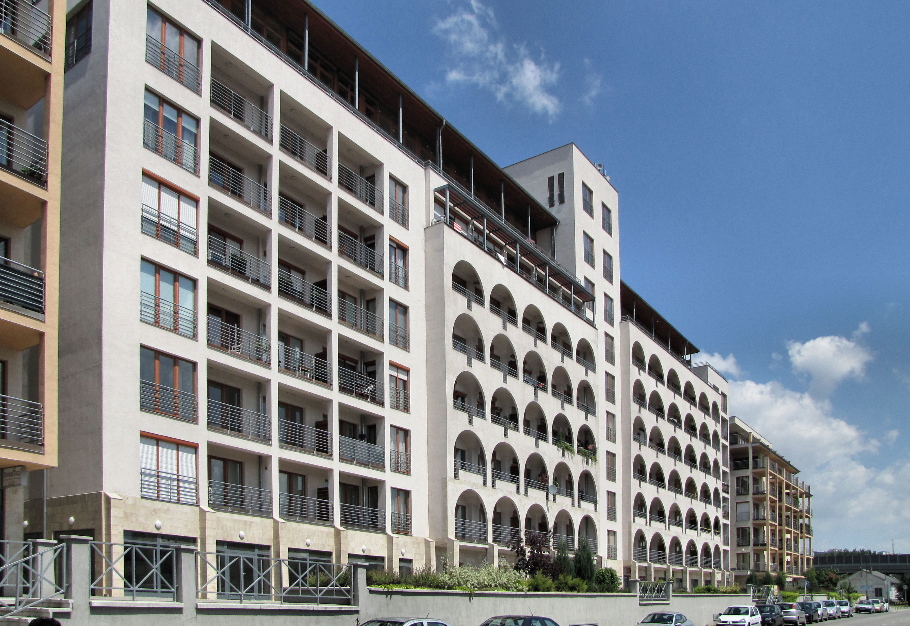 Contemporary buildings on the shore of the Danube, Győr.